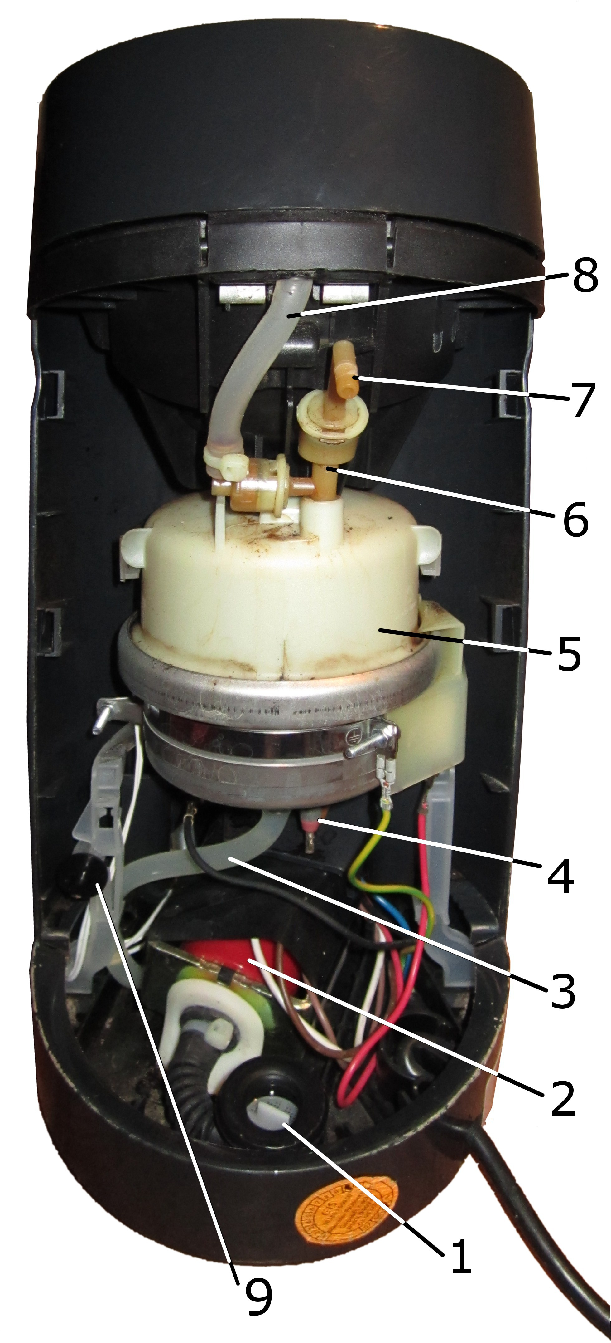 The inside of a Senseo coffee pod machine. 1) Inlet from reservoir, with sieve 2) Piston pump 3) Connection from pump to heating chamber 4) Electric connector for boiling device/heating chamber 5) Heating chamber 6) Three-port valve (most frequent failure point) 7) Air vent/overpressure relief into reservoir 8) Pipe towards scalding chamber (pod holder) 9) Reed switch for minimum level control of reservoir The electronics component, based on a PIC microcontroller, is situated below the cup stand.